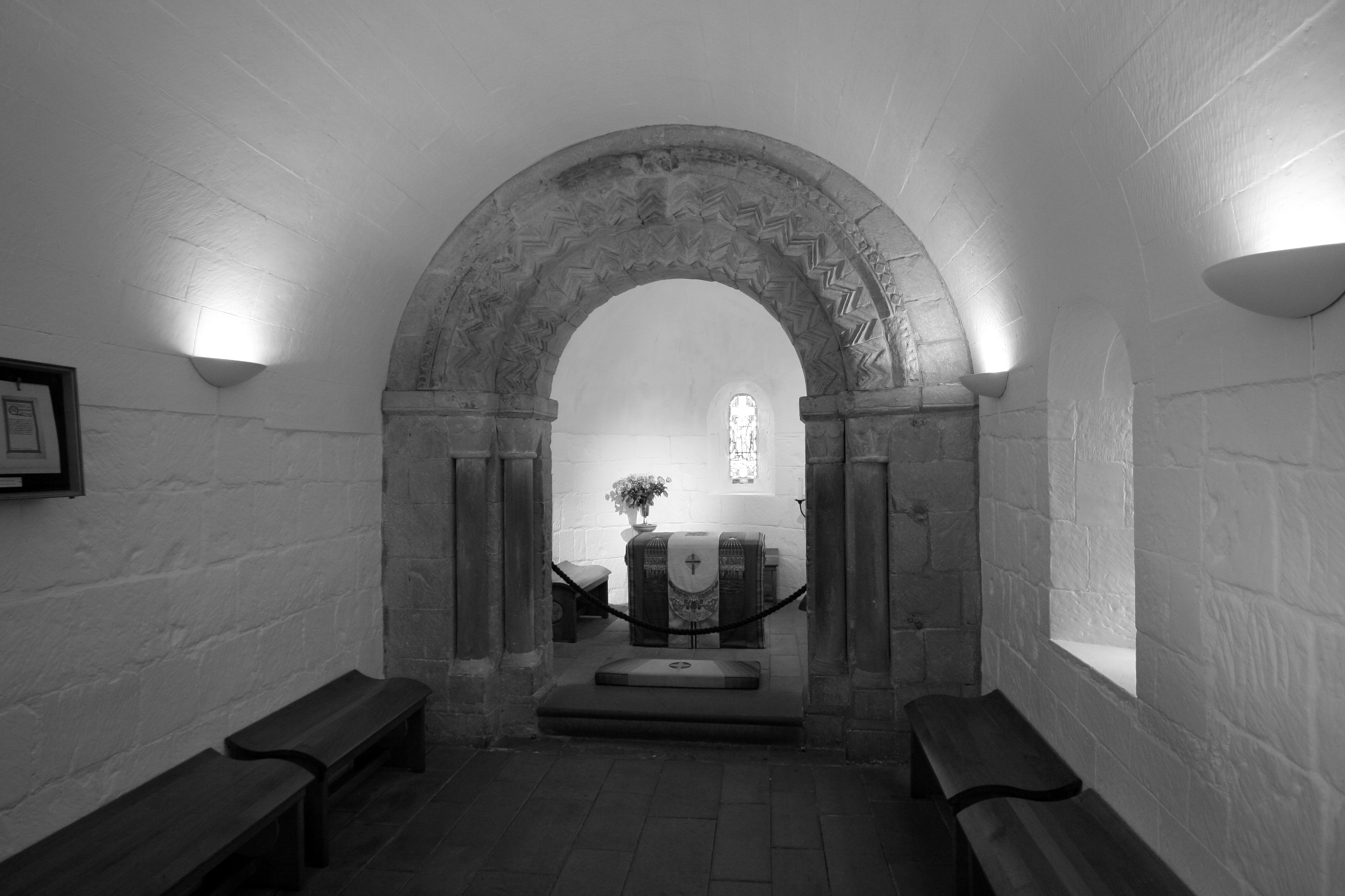 Saint Margaret's Chapel in Scotland. Date: 05-24-2005 5-4.5 USM Focal Length: 13mm F-Stop: f/4.0 Shutter Speed: 1/40 sec ISO: 800 Photographer: Chrys Category:Images of Scotland